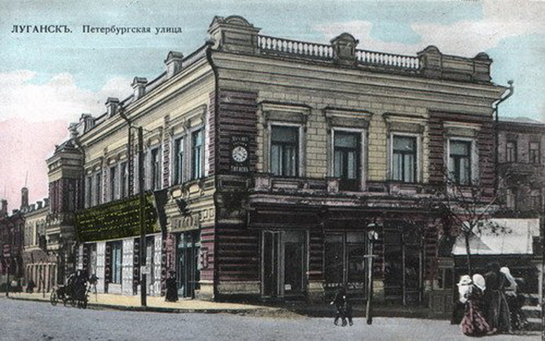 Petersburg street in Lugansk.